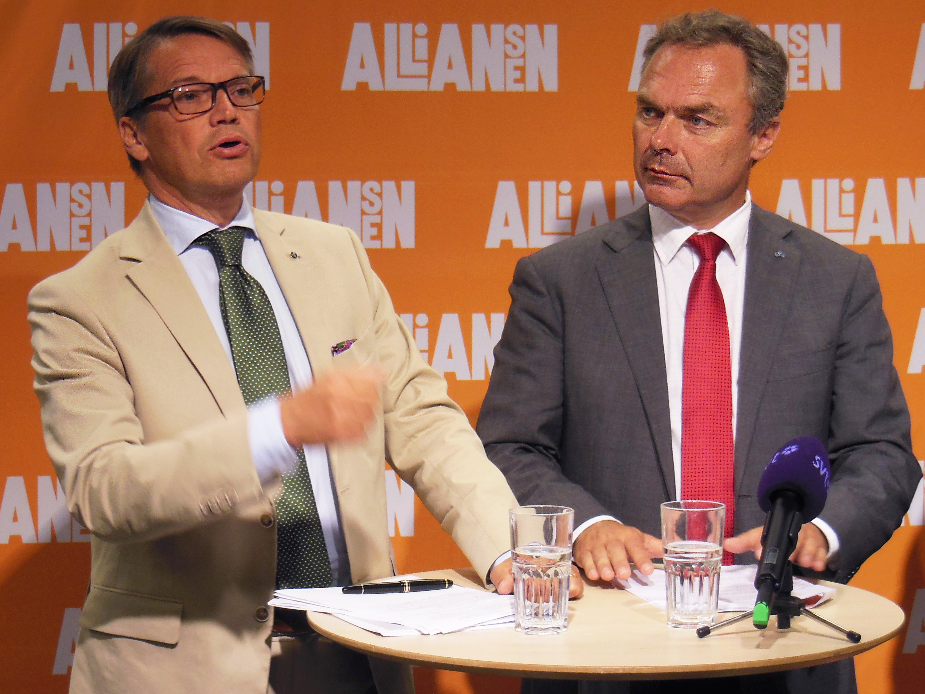 Göran Hägglund and Jan Björklund during a press conference in the store Clas Ohlson in the shopping mall Frölunda torg.